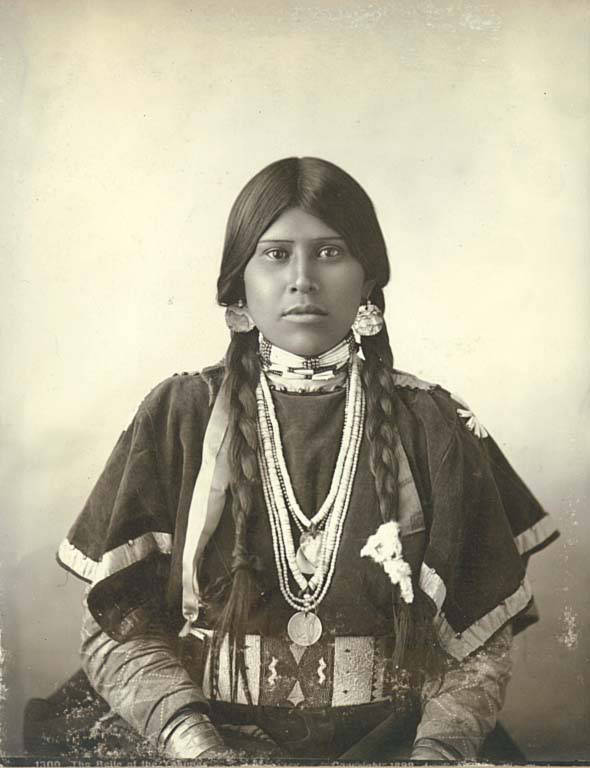 Studio portrait of a young Yakama woman. She has a beaded and decorated overshirt on, with a wide beaded belt. She is wearing several beaded necklaces, silver bracelets and abalone shell earrings . Caption on image: "The Belle of the Yakimas" Subjects (LCSH): Portraits-Washington (State); Yakama Indians--Clothing & dress